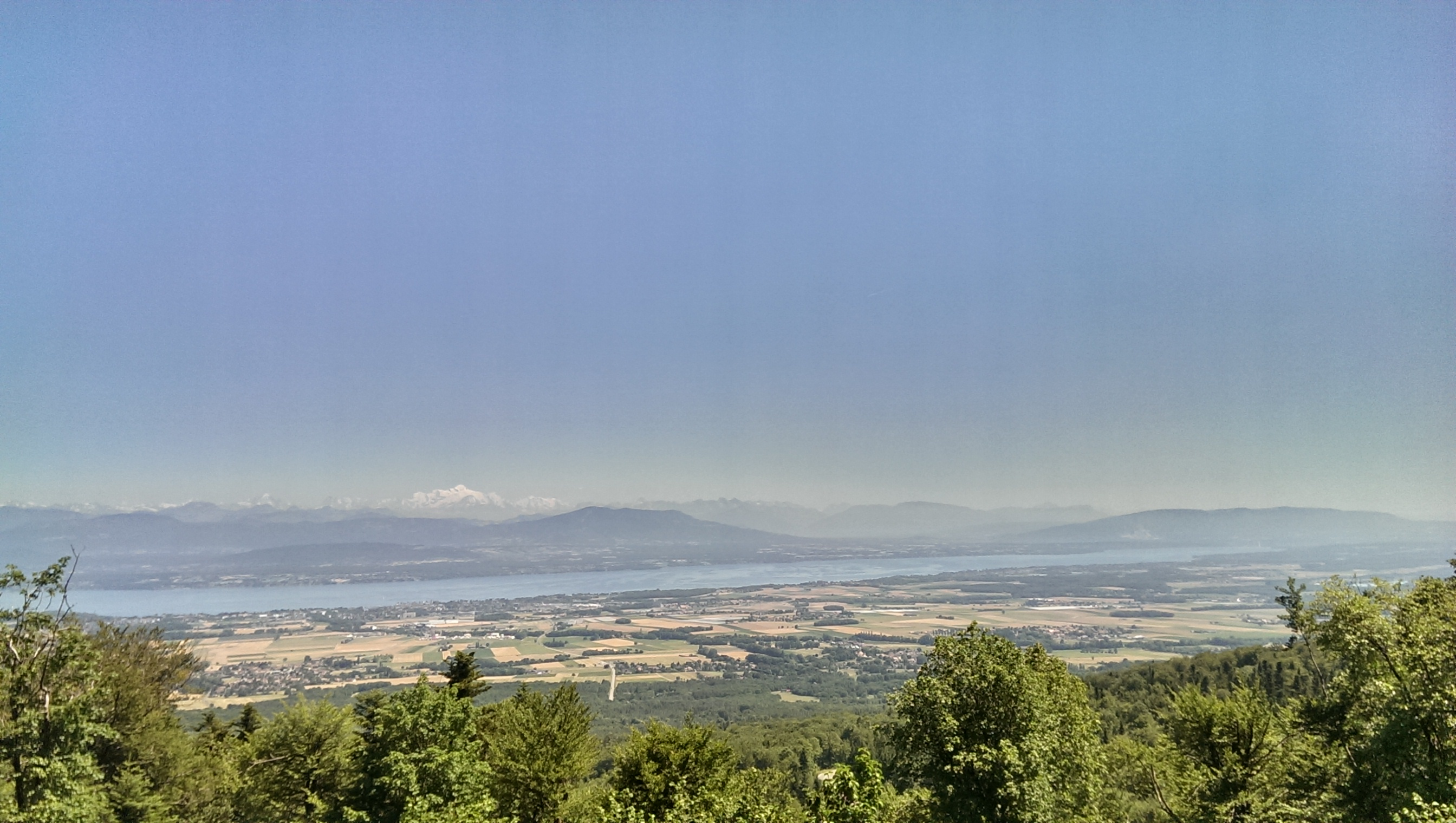 Picture taken from the Route de Nyon showing the Swiss Plateau with Geneva to the right. Lake Geneva is shown in the middle. The Alps with the Mont Blanc is in the back ground.